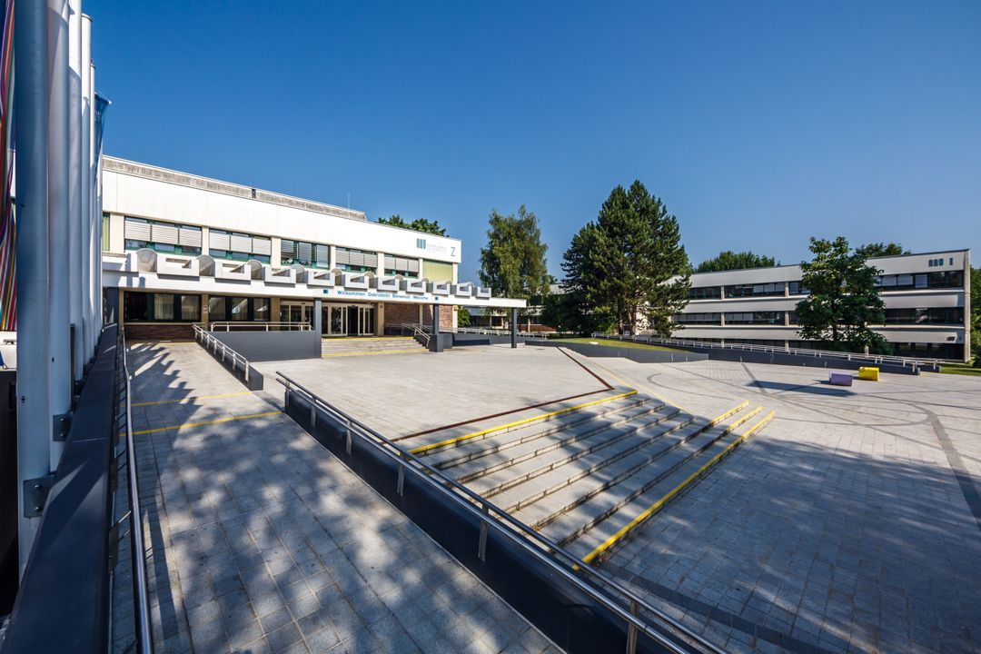 Alpen-Adria-Universität Klagenfurt: main entrance (view of the North Wing across the forecourt)